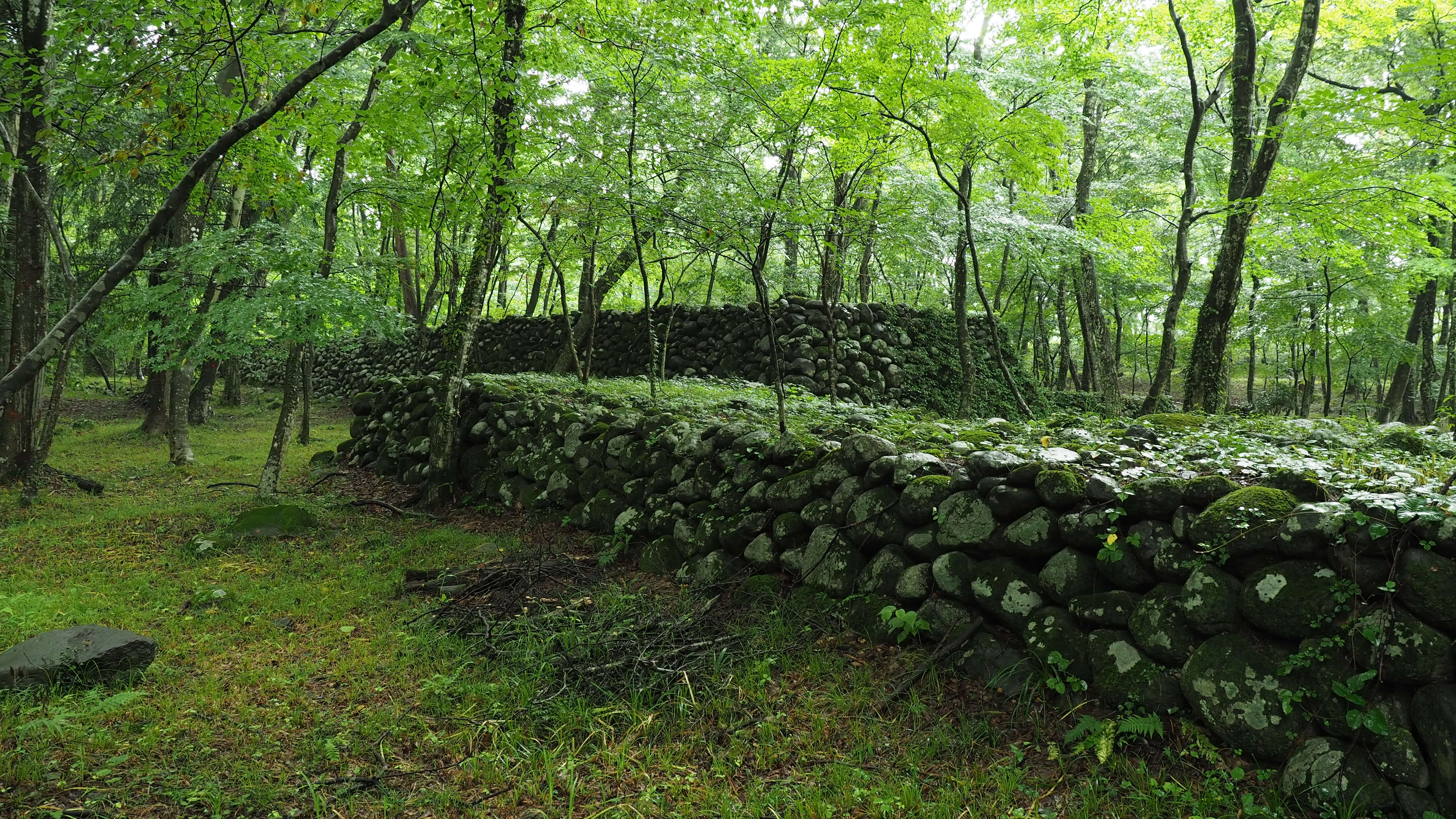 Open levees of Arakawa in Fukushima Prefecture, Japan.